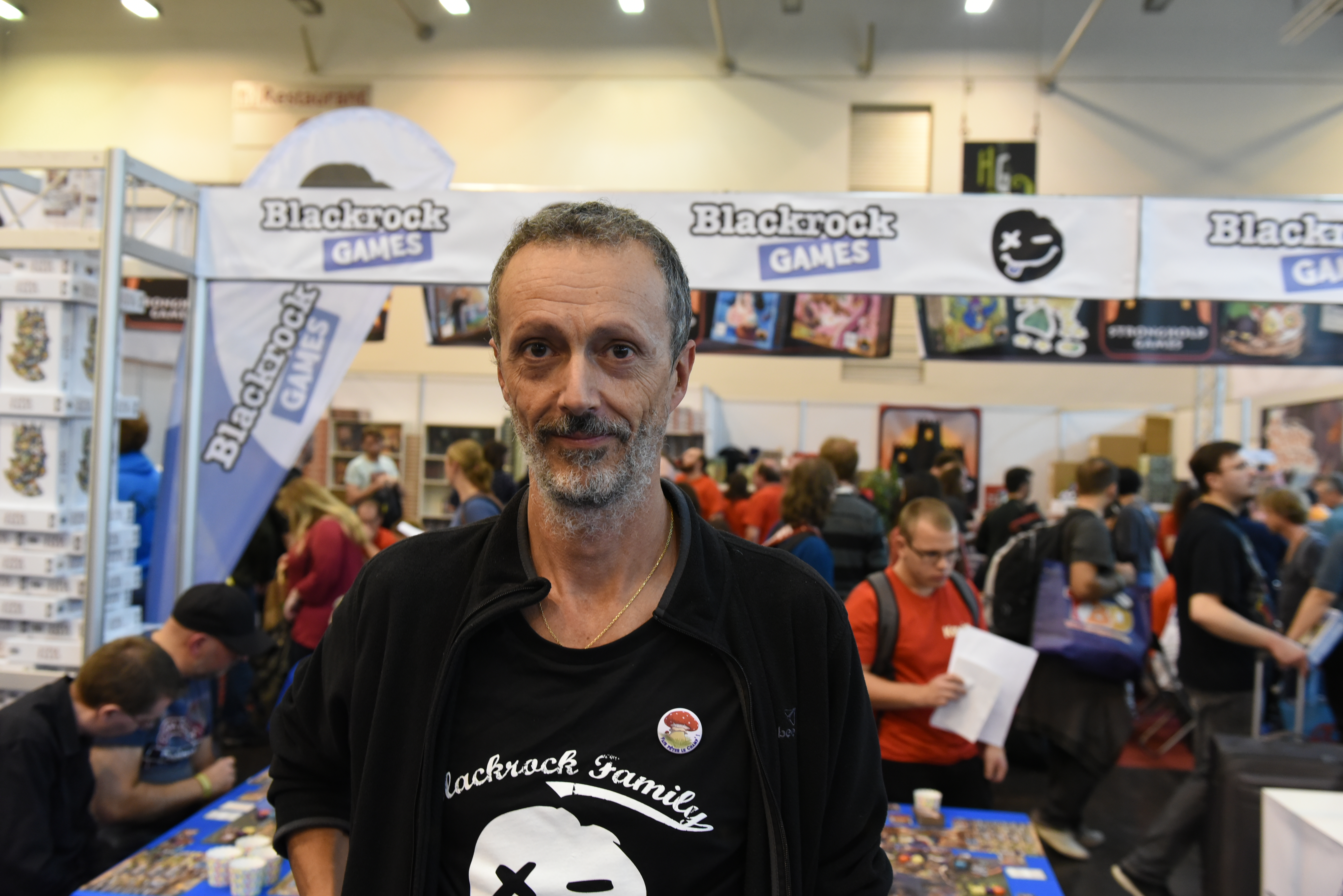 The game author Jean Louis Roubira at the board game fair Spiel '17 in Essen, Germany.